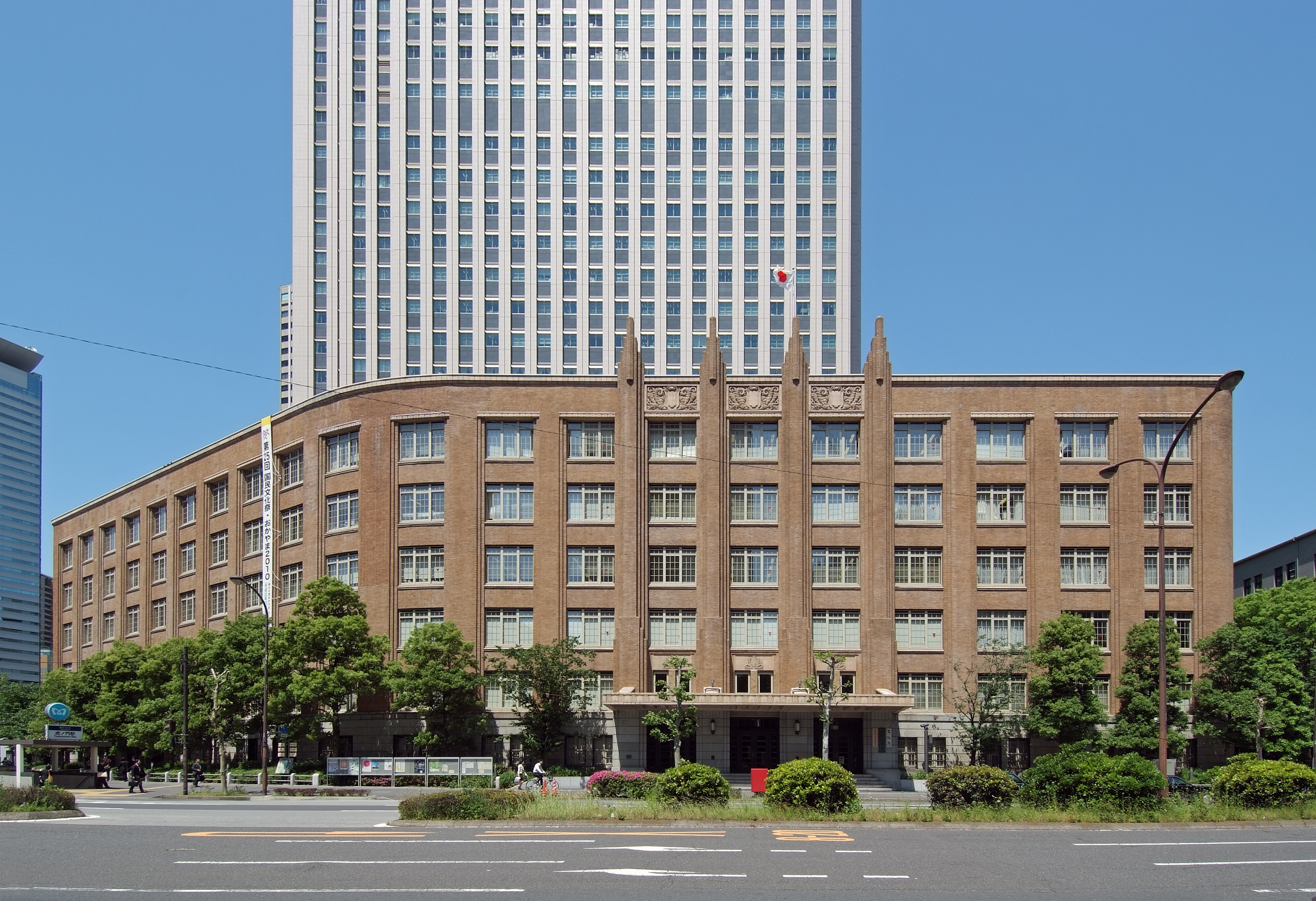 Office Building of Former Monbushō (Ministry of Education, Culture, Sports, Science and Technology) , 3-2-2 Kasumigaseki Chiyoda-ku Tokyo Japan, designed by The Ministry of Finance Building and Repairs Administrate Bureau in 1933.